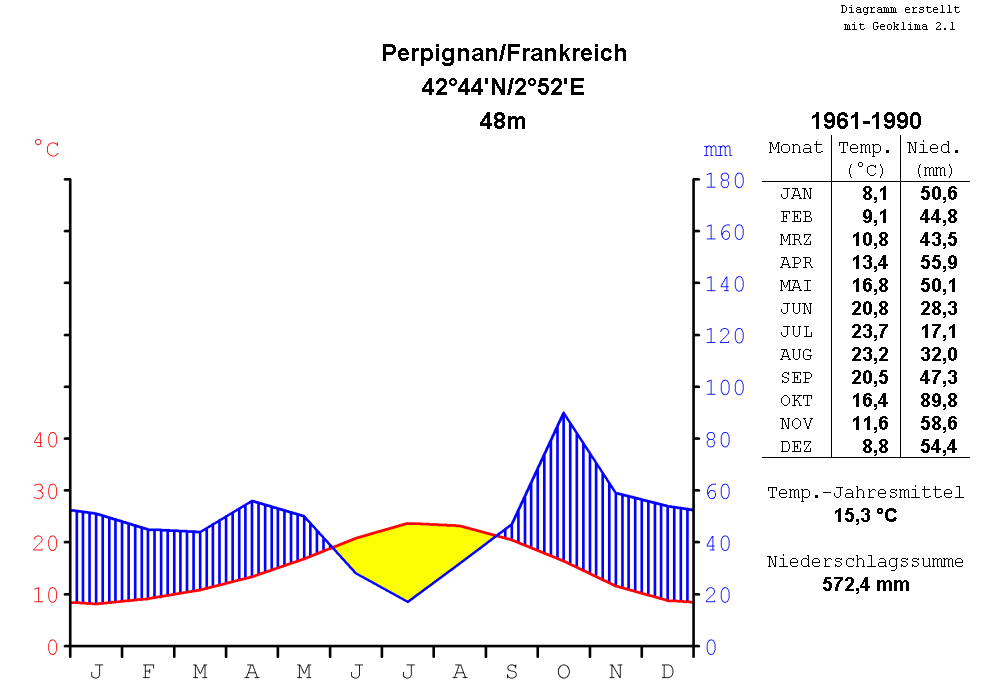 climate chart of Perpignan, France, for the period of time from 1961 to 1990, in the format by Walter and Lieth, metric, °Celsius and millimeters, chart made with Geoklima 2.1, label in German